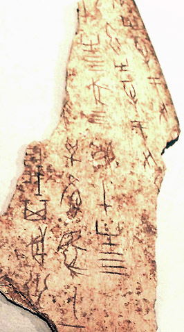 Cropped, rotated and contrast-enhanced version of original from Wikimedia Commons so as to better show oracle bone script Chinese Oracle Bones Shang Dynasty Linden-Museum, Stuttgart (Germany) Photographer:user:Dr. Meierhofer Date: 30.09.2006